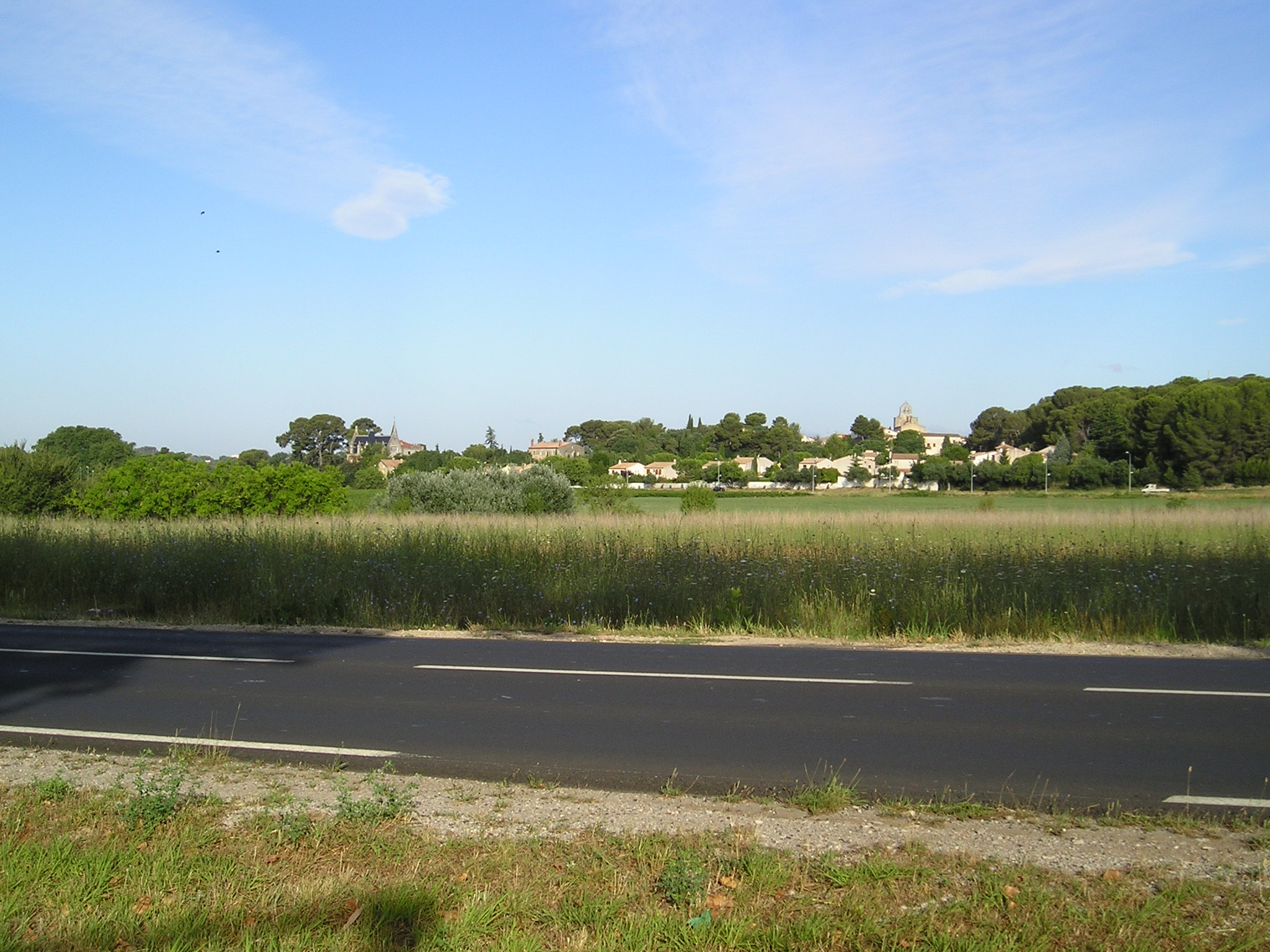 In Hérault, France, the town of Clapiers viewed from the East, Jacou and the D21 road.